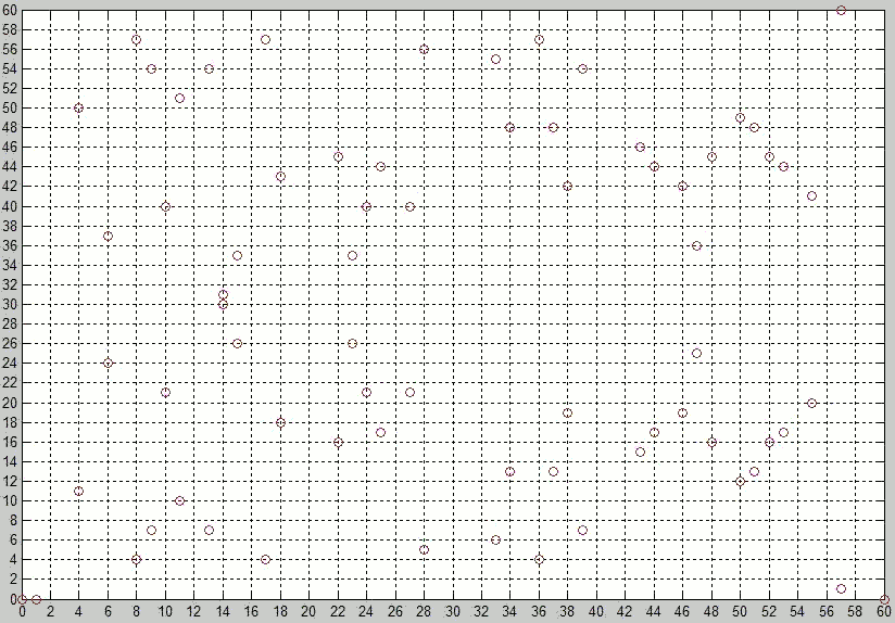 points of elliptic curve y2=x3-x, subset of Z612